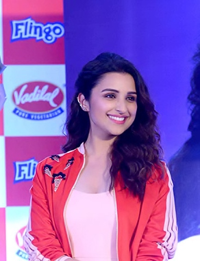 Parineeti Chopra at a promotional event for Vadilal in 2016